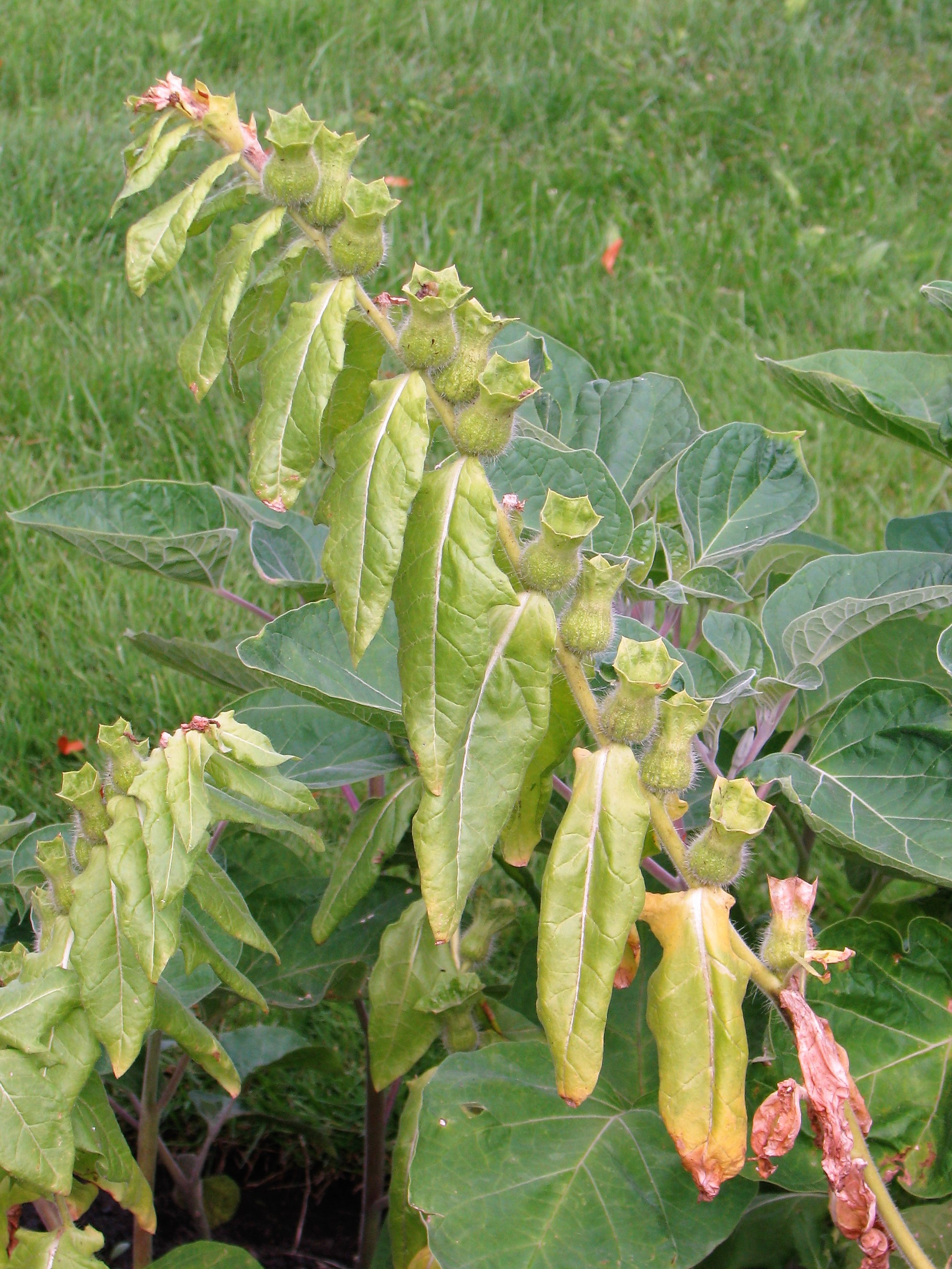 Hyoscyamus niger var. pallidus, unripe fruits. Plant cultivated in Wrocław University Botanical Garden, Wrocław, Poland.